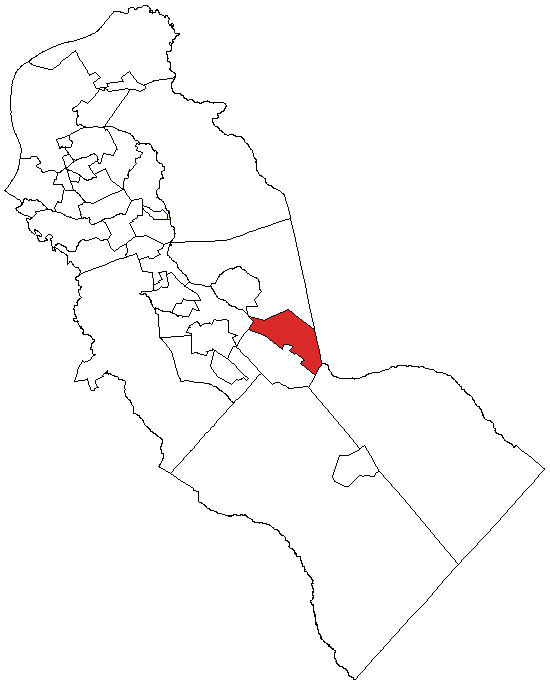 Map of Camden County highlighting Berlin Township